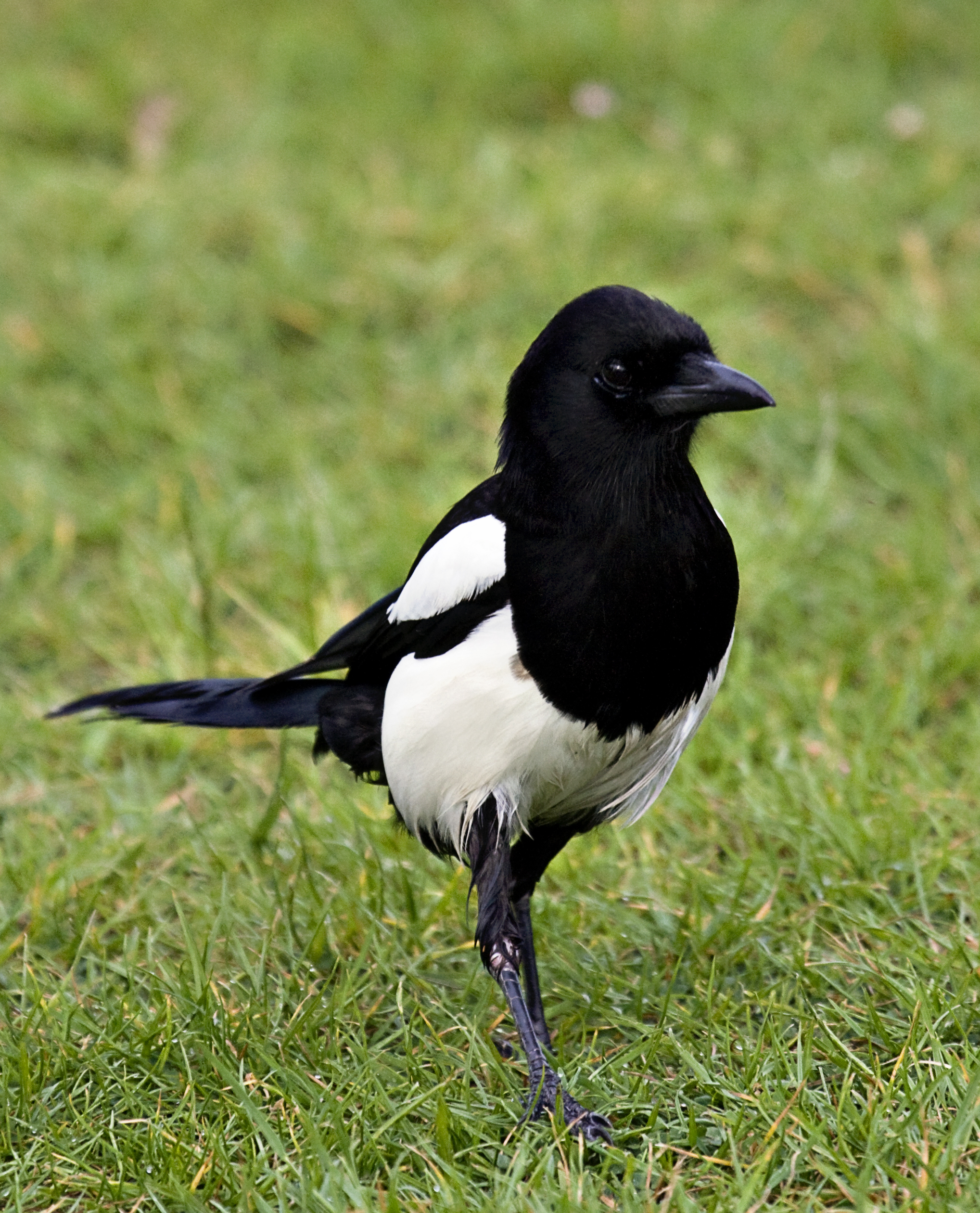 European magpie, Pica pica, in Hyde Park, London, June 2010.